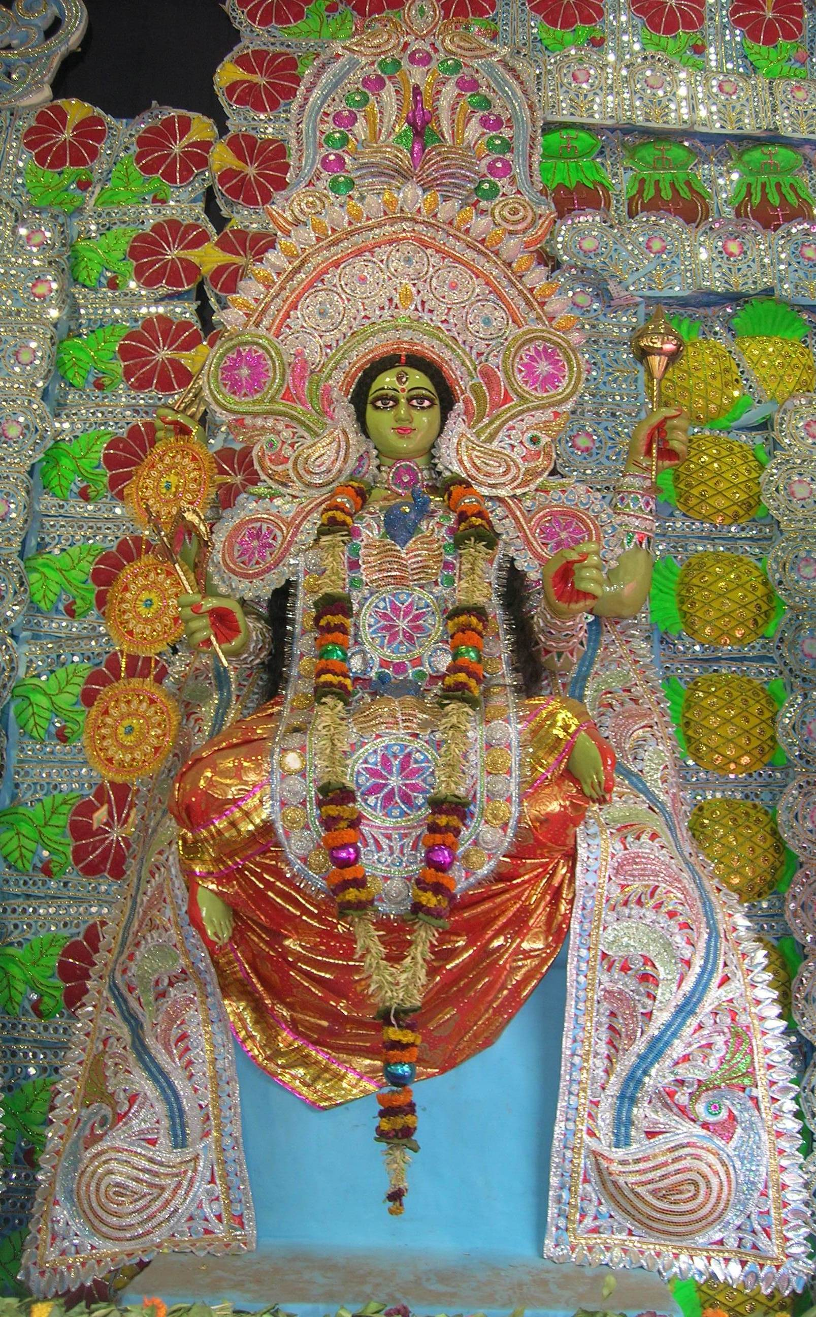 Matangi at Janbajar Sammilito Kali Puja Samiti pandal, Kolkata.